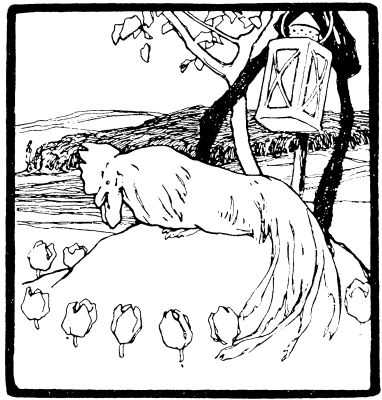 Illustration by Otto Ubbelohde to the fairy tale The Death of the Little Hen